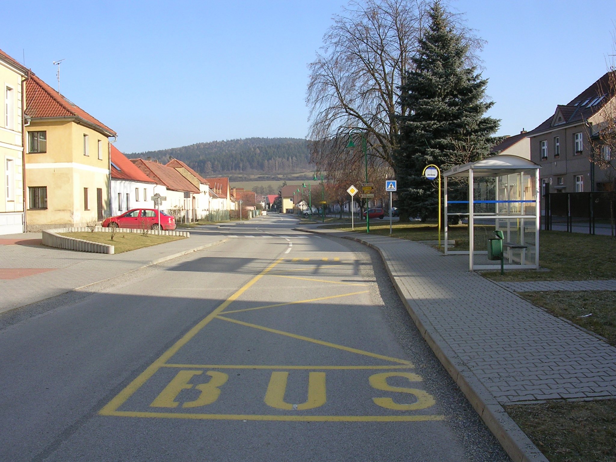 Malenice, the Czech Republic.